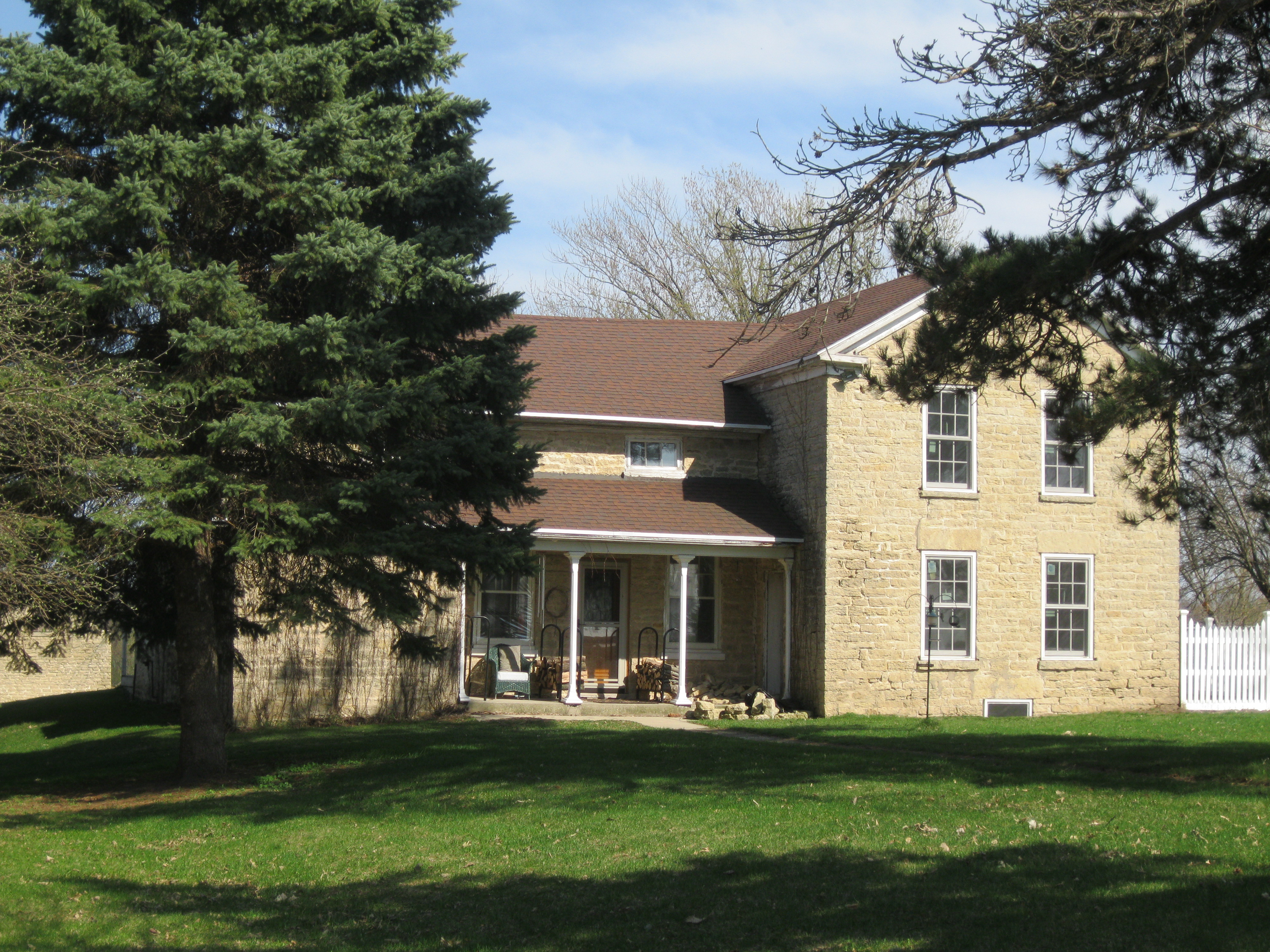 The Samuel Hall House, located at 974 Hillside Road in Albion, Wisconsin.